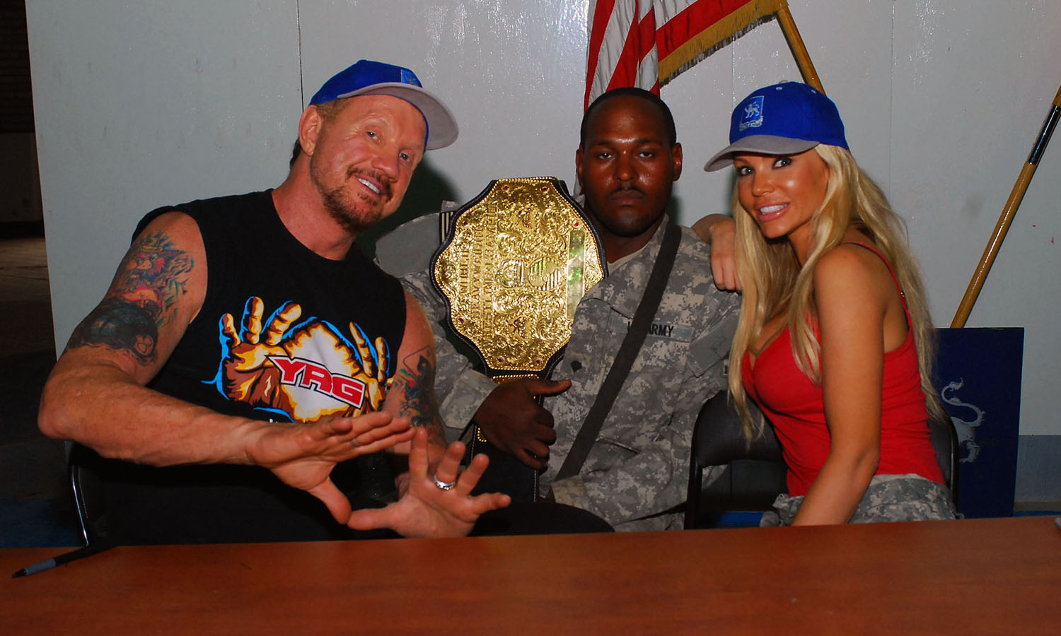 Spc. Jerome Harrison, a Columbus, Ohio, native, holds the heavyweight wrestling title belt as he poses between former pro wrestler Diamond Dallas Page and model and actress Gabrielle Tuite at Combat Outpost Callahan March 12. Harrison serves as a truck driver in Company F, 1st Combined Arms Battalion, 68th Armor Regiment, 3rd Brigade Combat Team, 4th Infantry Division, Multi-National Division - Baghdad.